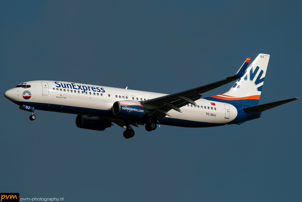 Nice new colors on this plane. Boeing 737-8CX Amsterdam schiphol [AMS / EHAM] 12-06-2010